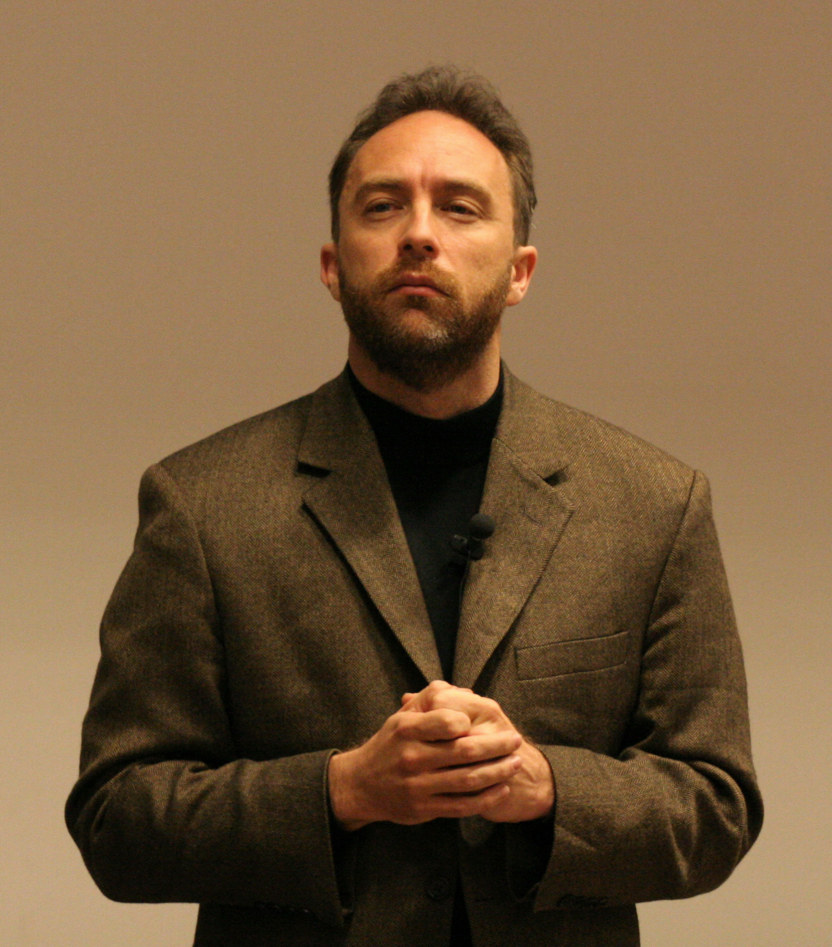 Jimbo Wales speaking at FOSDEM 2005 in Brussels, Belgium. A modified version.